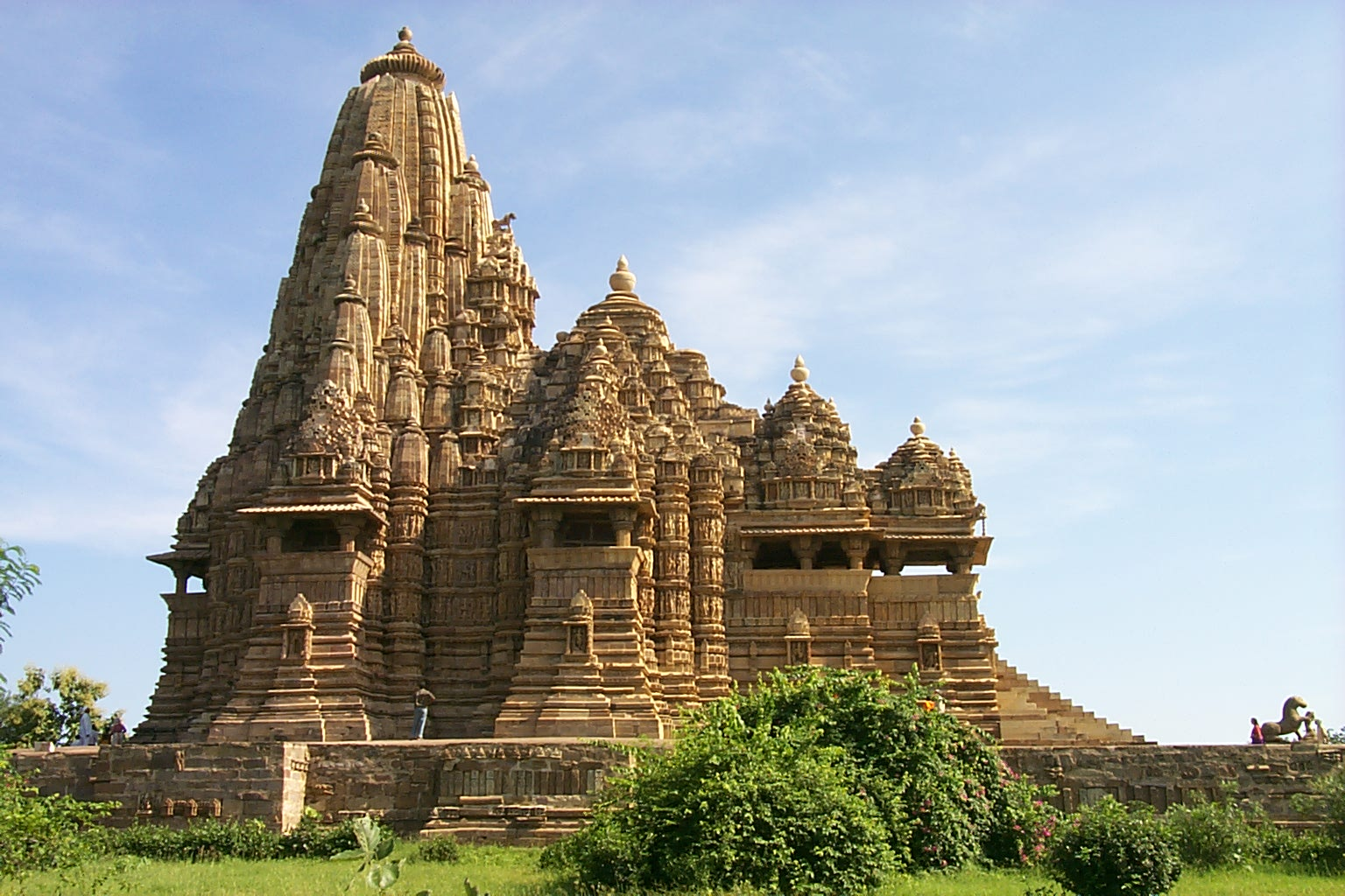 view of Kandariya Mahadeo Temple (11th century) at Khajuraho (Madhya Pradesh, India)